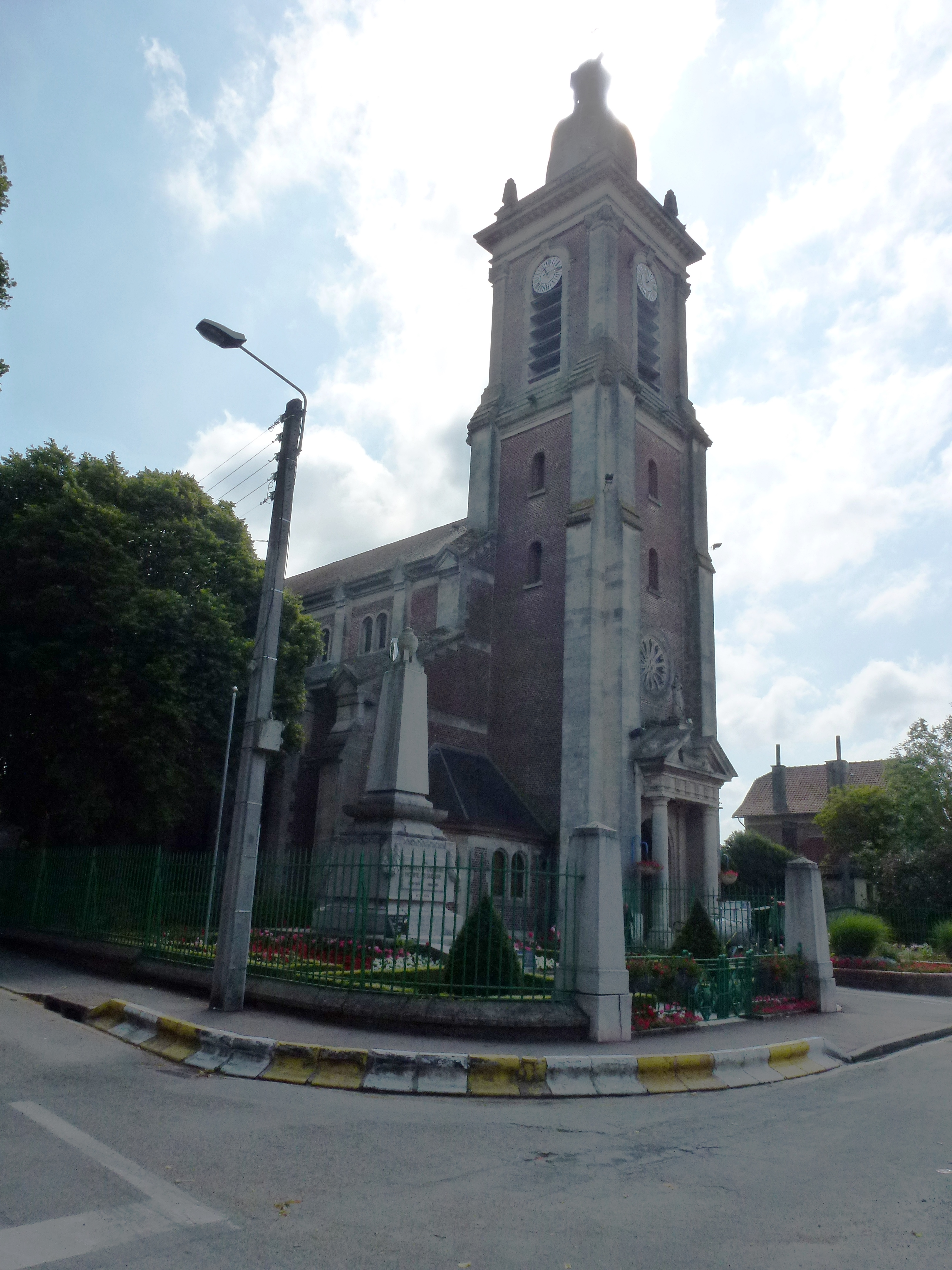 Douvrin (Pas-de-Calais, Fr) église du Sacré-Cœur